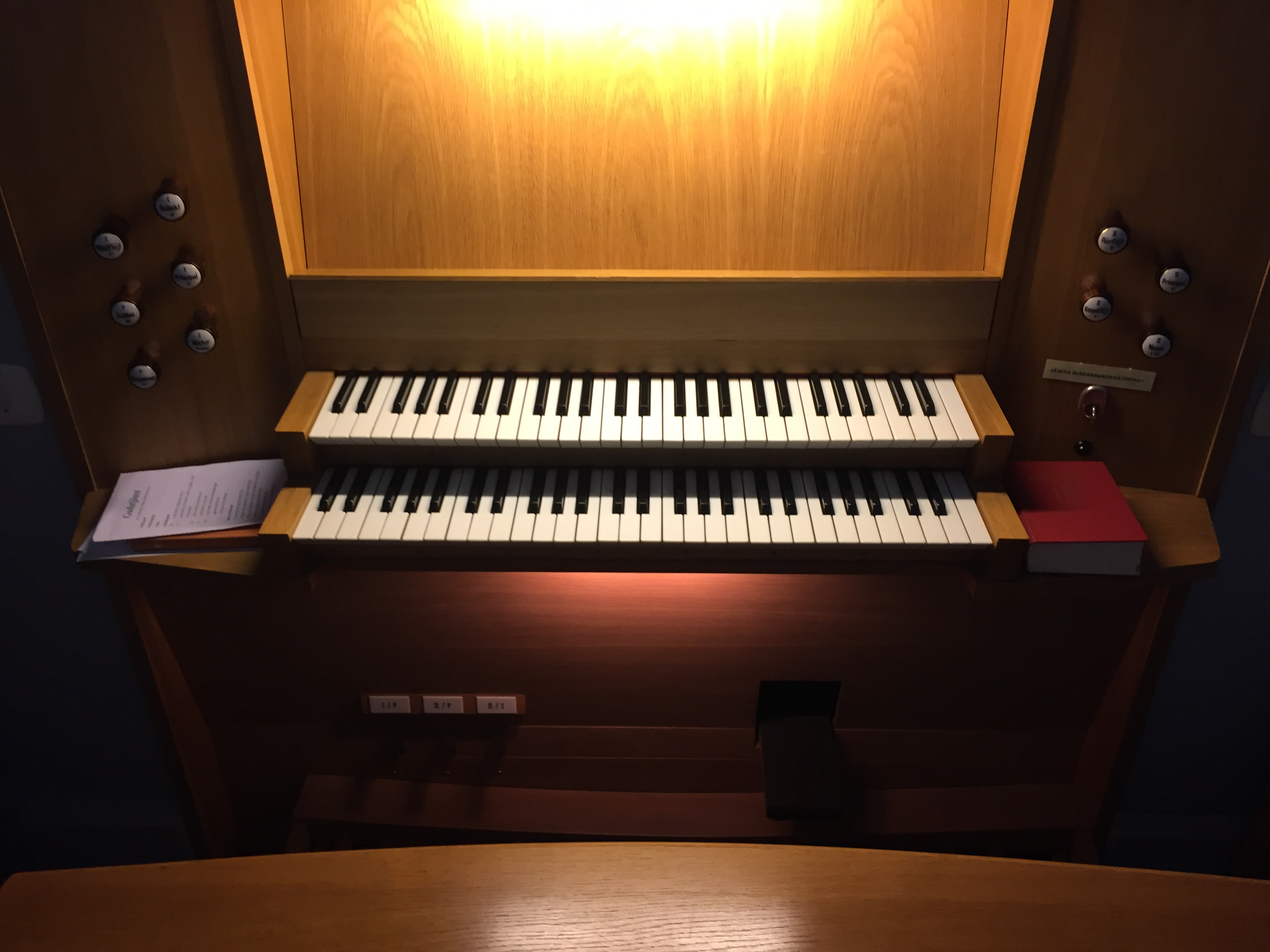 Norra Möckleby church, Öland, Sweden.